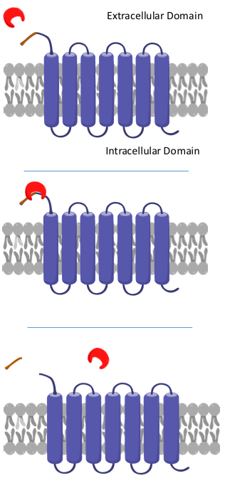 This image is meant to show a simplified version of how PAR1 is cleaved by a protease to expose a tethered ligand.